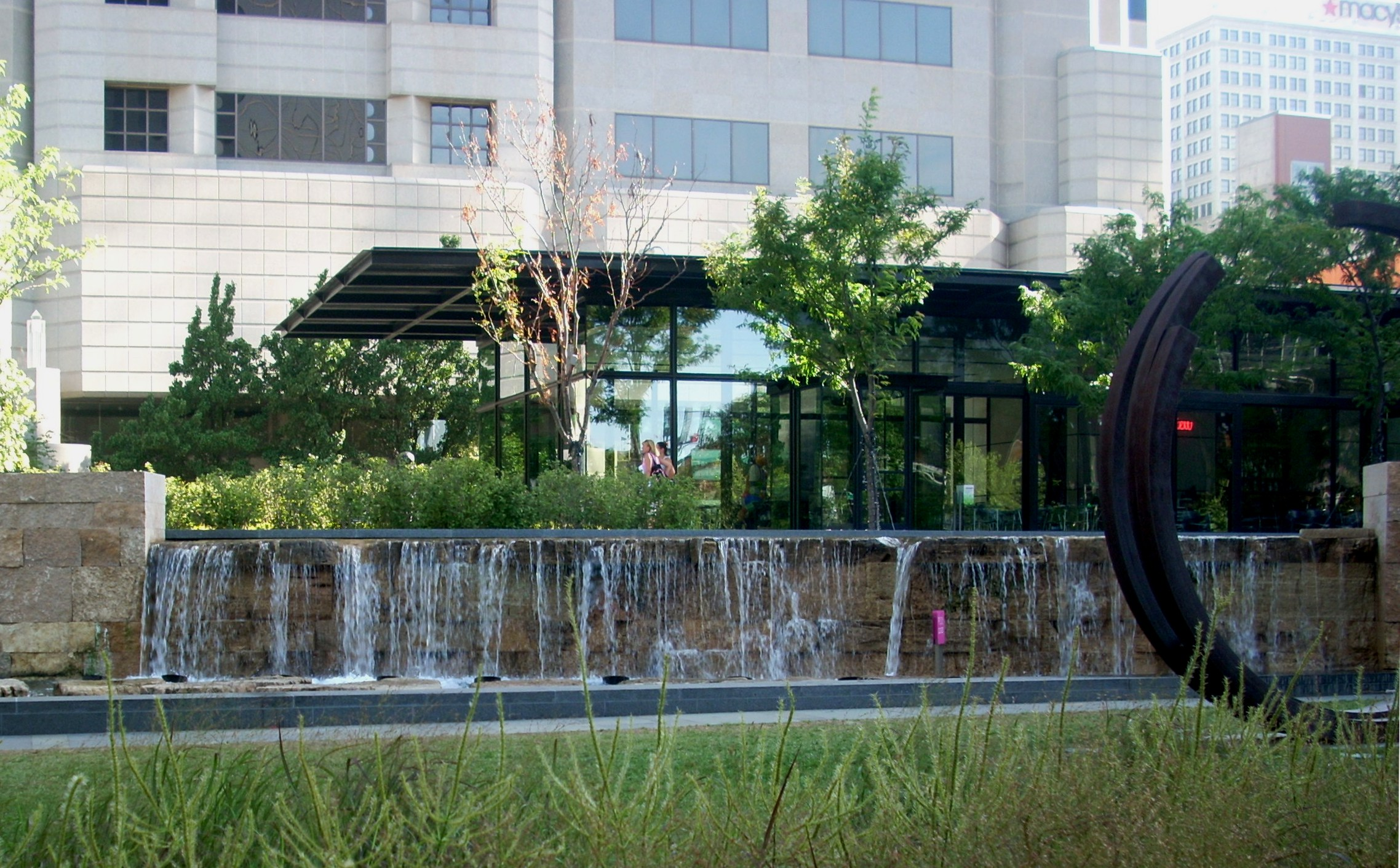 The Terrace View restaurant in Citygarden, St. Louis, Missouri, United States